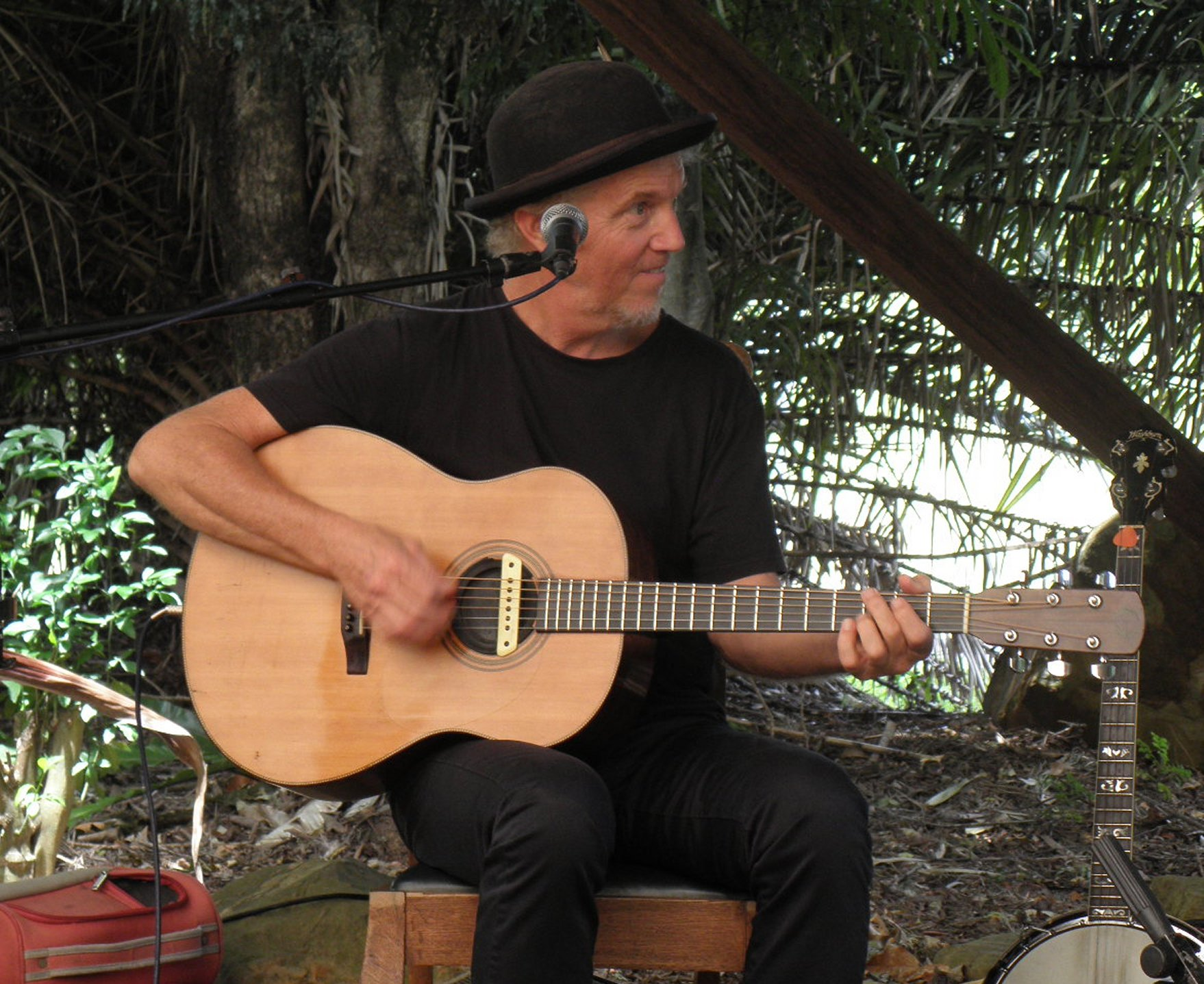 Bill Jacobi (Australian roots musician) on stage in New South Wales, Australia, January 2018, playing a Gurian guitar (Tony Rees photograph)